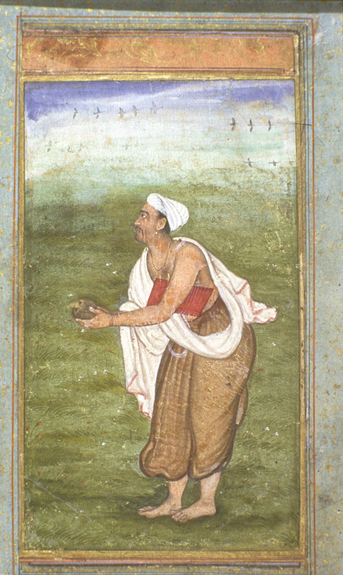 Culture: India (Mughal court at Delhi)